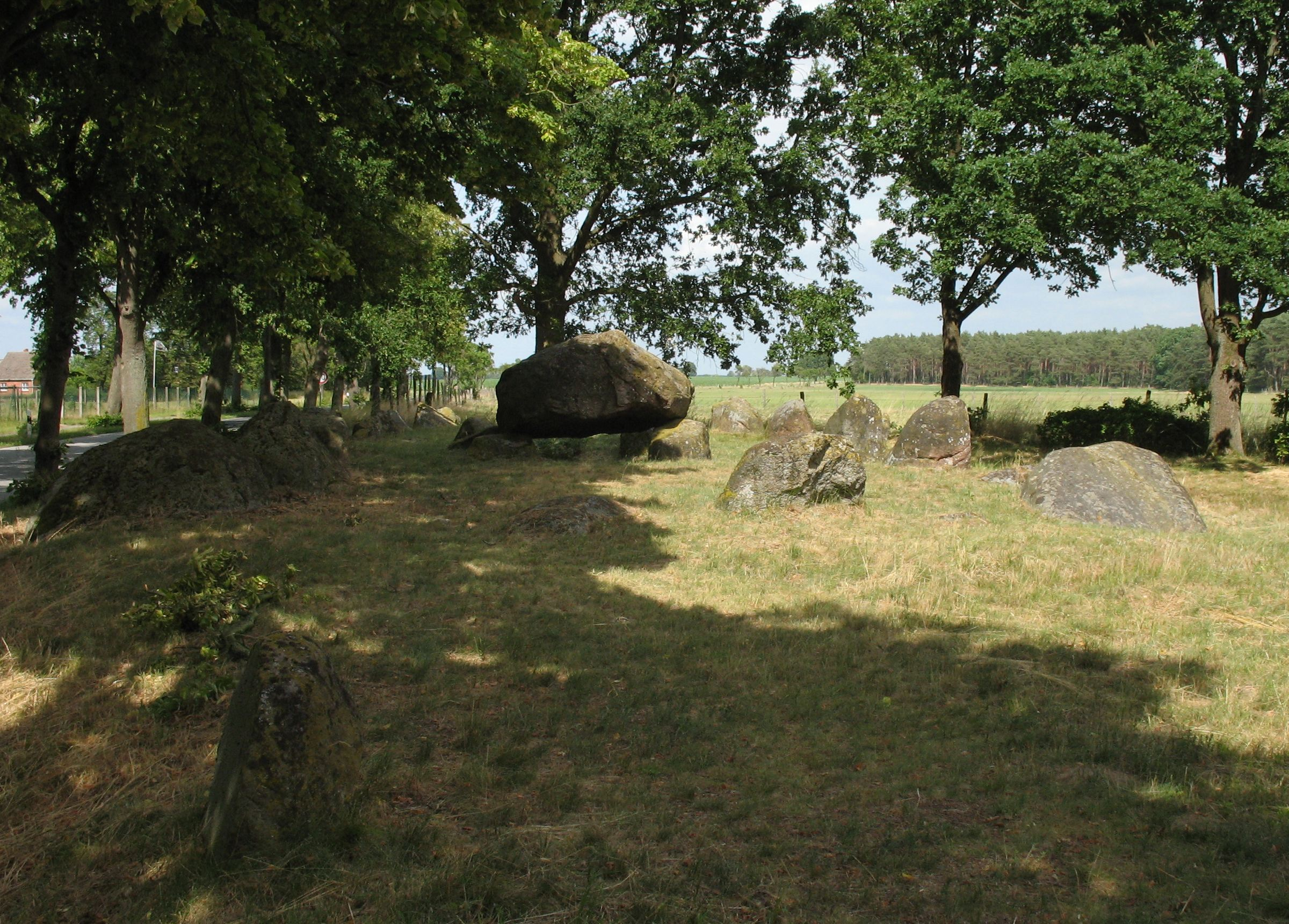 Dolmen in Lenzen-Mellen in Brandenburg, Germany